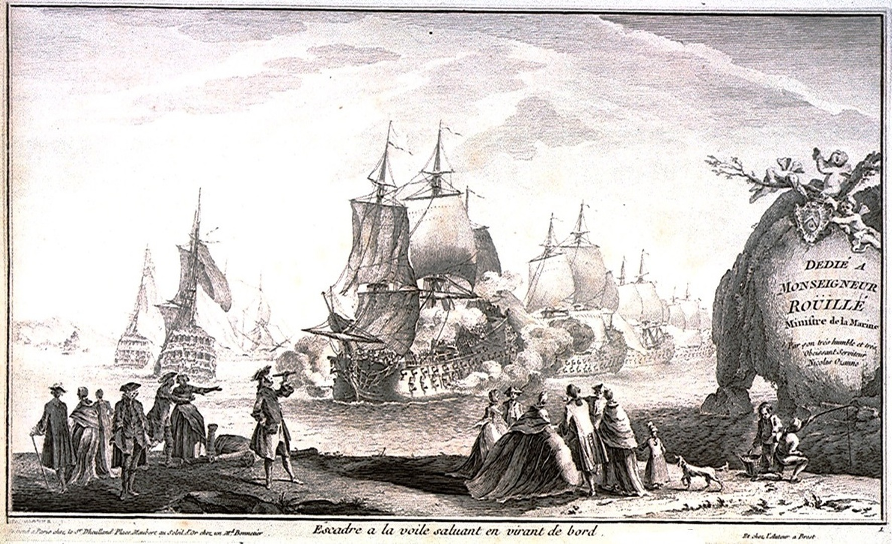 Squadron of ships of the line performing a tack and welcoming. Allegorical image of the glory Minister of Marine Antoine-Louis Rouillé.